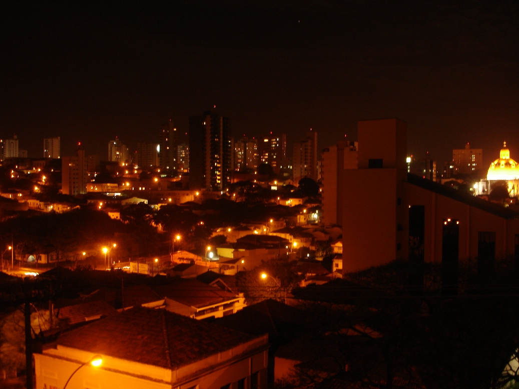 Night View from our apartment